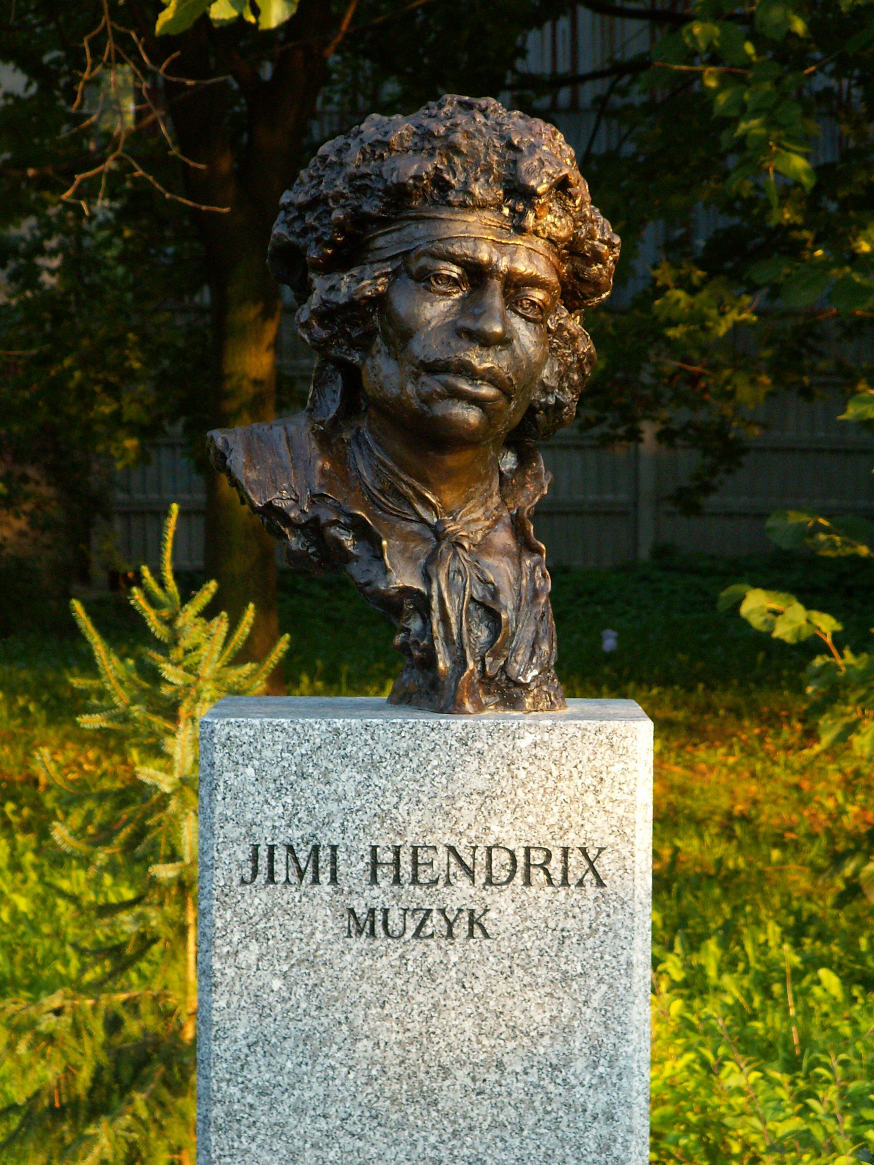 Bust of Jimi Hendrix in Celebrity Alley in Kielce (Poland)